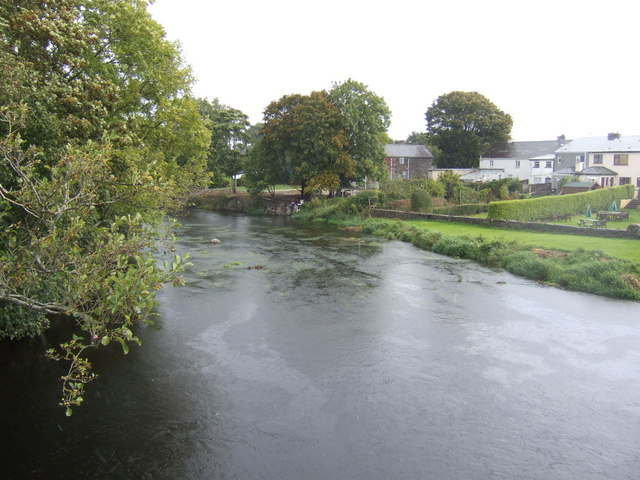 River Bride at Conna, Co. Cork View east from Conna Bridge.